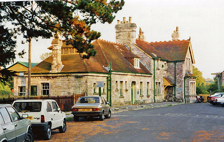 Corfe Castle station (restored), 1986. View SE, towards Swanage: former ex-LSWR Wareham - Swanage line, closed (line and station) 3/1/72. The line was restored in stages from Swanage by the heritage Swanage Steam Railway from 8/75, to a final link-up with the main line again not until 4/09. Corfe Castle station was reopened on 12/8/95.